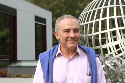 Francois Loeser at Oberwolfach 2013